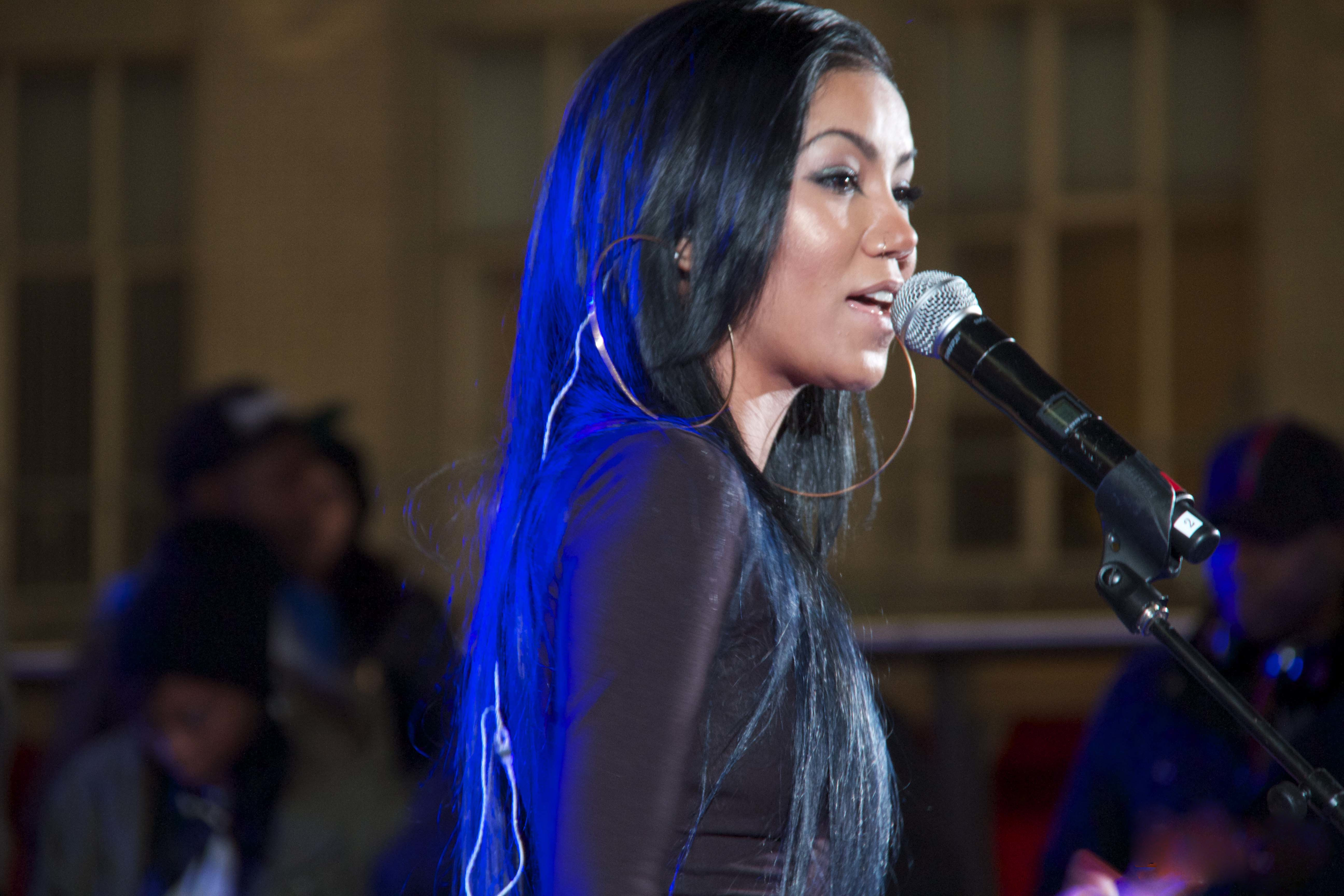 The Manifesto Year 7 Live at The Square Sep 22 2013 Featuring acts such as John river, Wolf J mcfarlane, Jhene Aiko, Souls of Mischief, Freedom Writers, Jully Black, Kardinal Offishal, Solitiar, Junia-T, TFHOUSE and more! Photography by CZRE-E for The Come Up Show